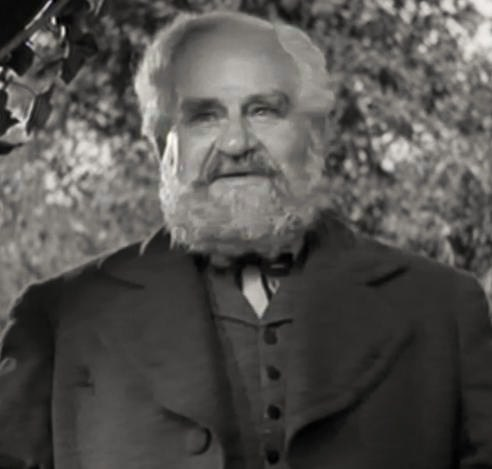 Lionel Belmore in Little Lord Fauntleroy - cropped screenshot